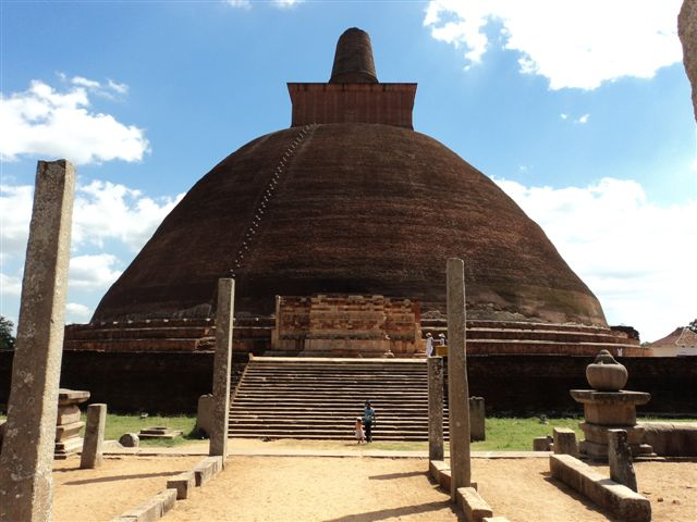 The Jethawanaramaya Buddhist shrine in Anuradhapura, Sri Lanka